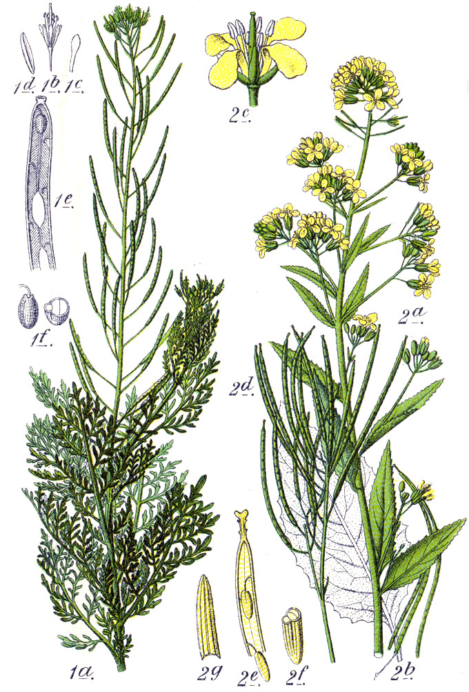 1. Descurainia sophia (L.) Webb ex Prantl, syn. Crucifera sophia (L.) E.H.L.Krause 2. Sisymbrium strictissimum L., syn. Crucifera strictissima (L.) E.H.L.Krause Original Description 1. Wellsame, Crucifera sophia 2. Ganz steife Rauke, C. strictissima